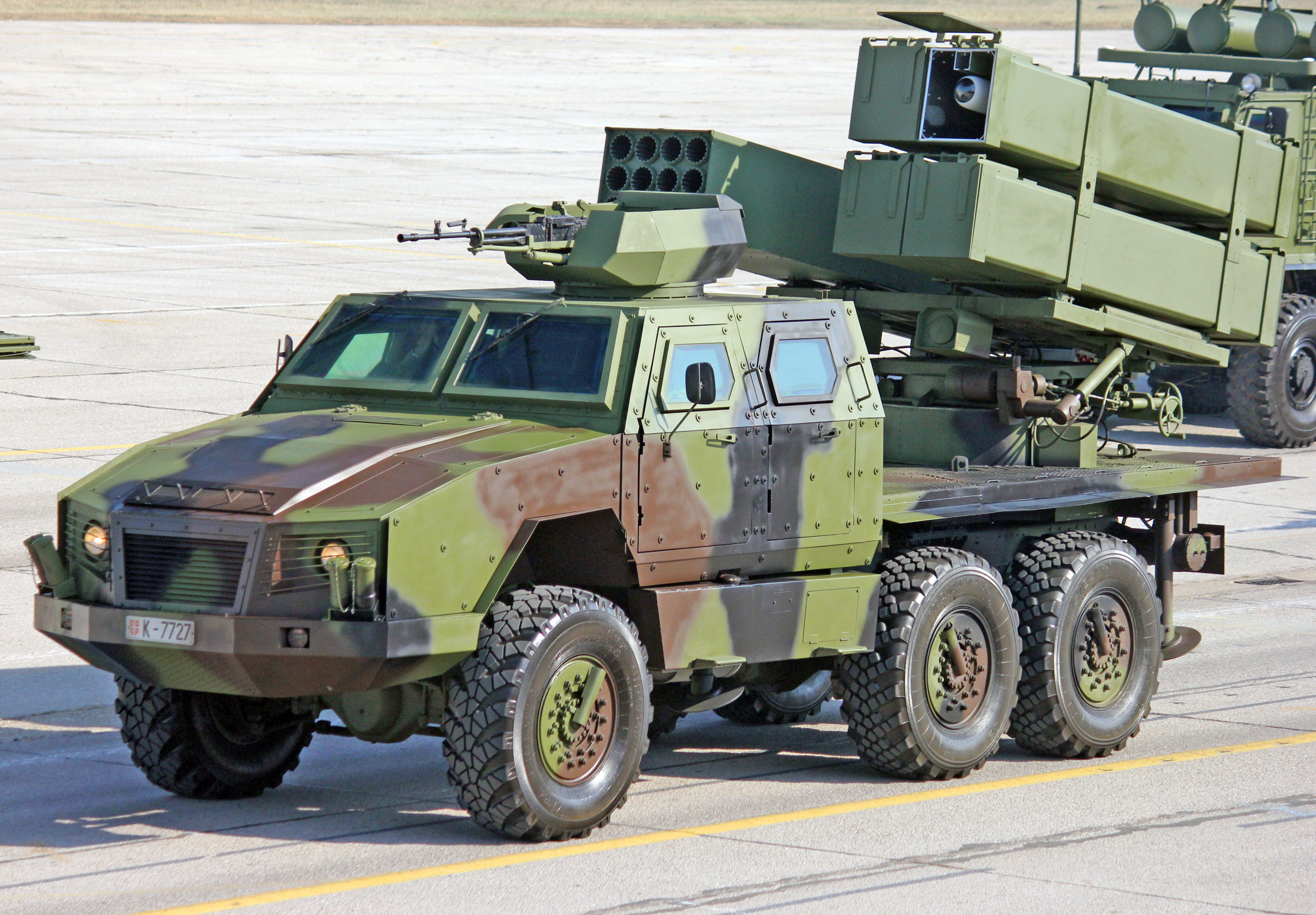 Serbian army modernized М-77 Oganj MLRS with armored cab and modular launchers, left with 122mm rockets and right with RALAS guided missiles on Sloboda 2019 military parade and exercise at "Colonel-pilot Milenko Pavlović" military airport.